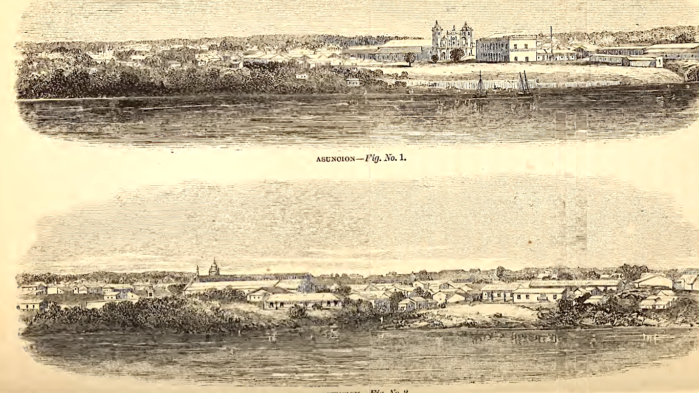 Asunción, Paraguay, sketched by Lieutenant Page USN in 1854